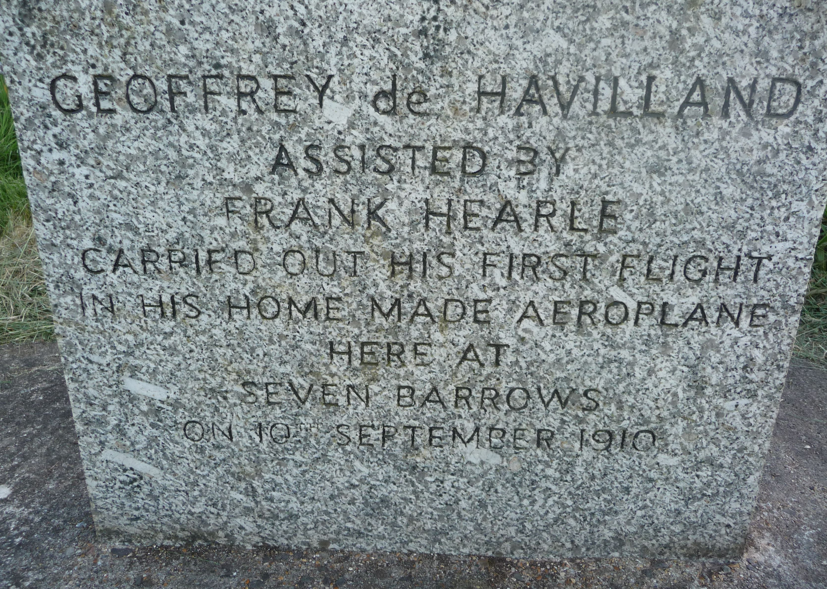 Sir Geoffrey de Havilland made his first successful test flight on 10 September 1910, commemorated by a memorial stone situated in the Seven Barrows field to the south of Beacon Hill.